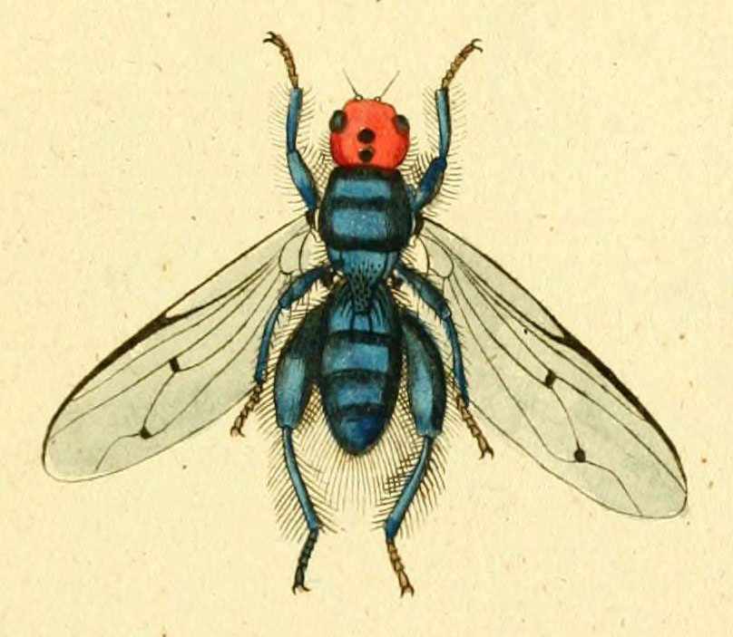 Thyreophora cynophila (original name : Musca cynophila)